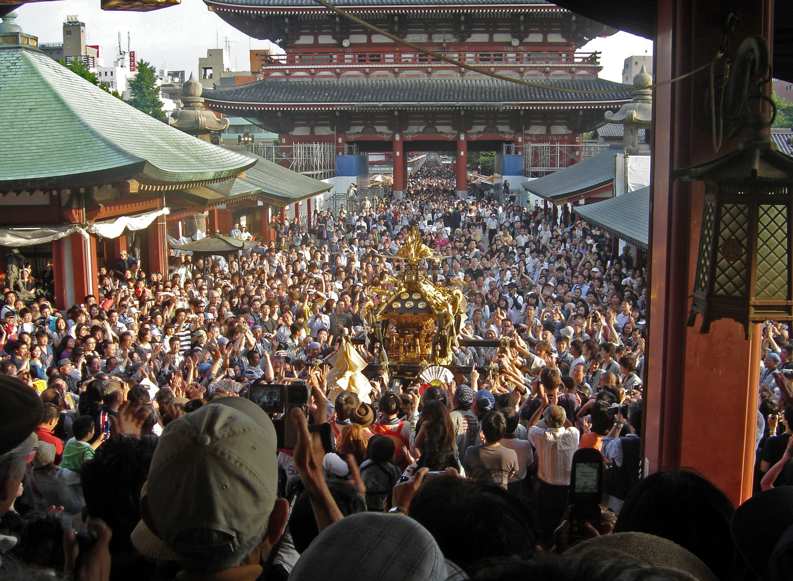 A view of the Hozomon gate and the Nakamise beyond it as well as one of the main mikoshi from the top step of Sensō-ji during Sanja Matsuri.